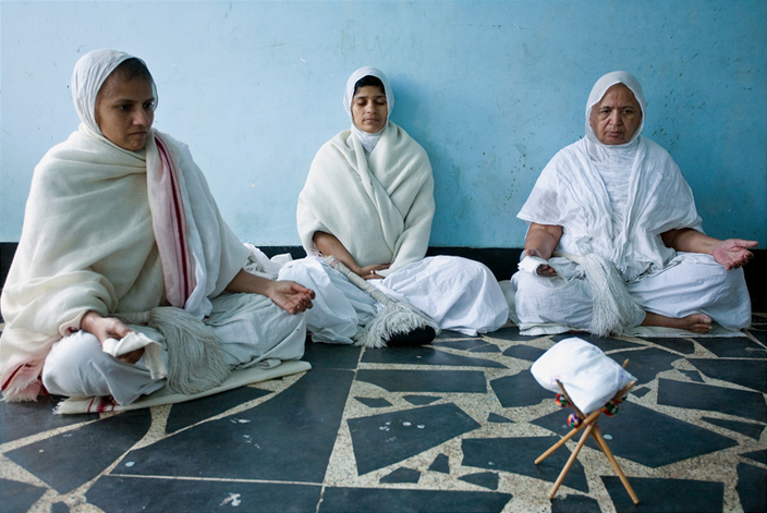 Jain sadhvis meditating (in Brindavan)